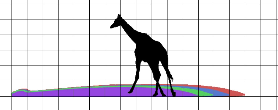 Titanoboa Size and Giraffe Size